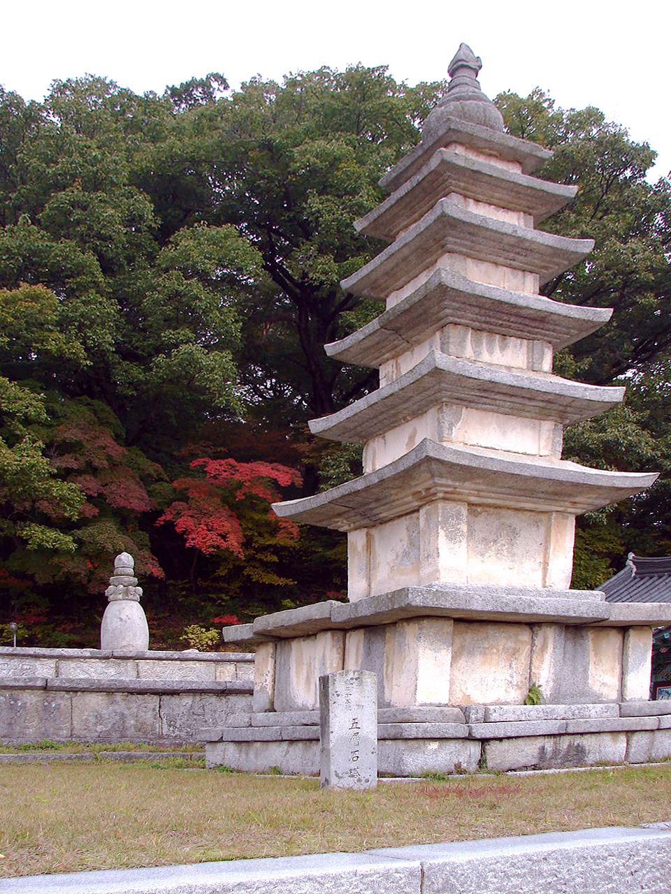 Geumsansa Ocheung Seoktap (Five storied stone pagoda of Geumsansa Temple). This is the stone pagoda located on the top of Songdae, a tall pedestal at the north of Geumsansa Temple. The base of pagoda finial, which looks like a roof stone, is designed to support the decoration at the top of the pagoda and gives the pagoda more distinct appearance, distinguishing it from other pagodas. The square supporting the ornamental top portion is remarkably large. National Treasure #25.